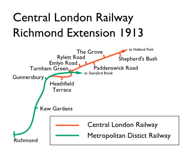 Geographic Map of the Central London Railway extension to Richmond planned in 1913.